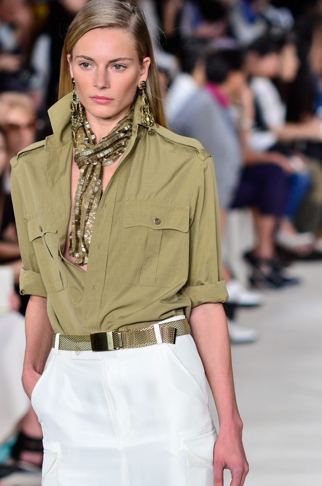 Latvian model Ieva Lagūna on Ralph Lauren SS 15 Show